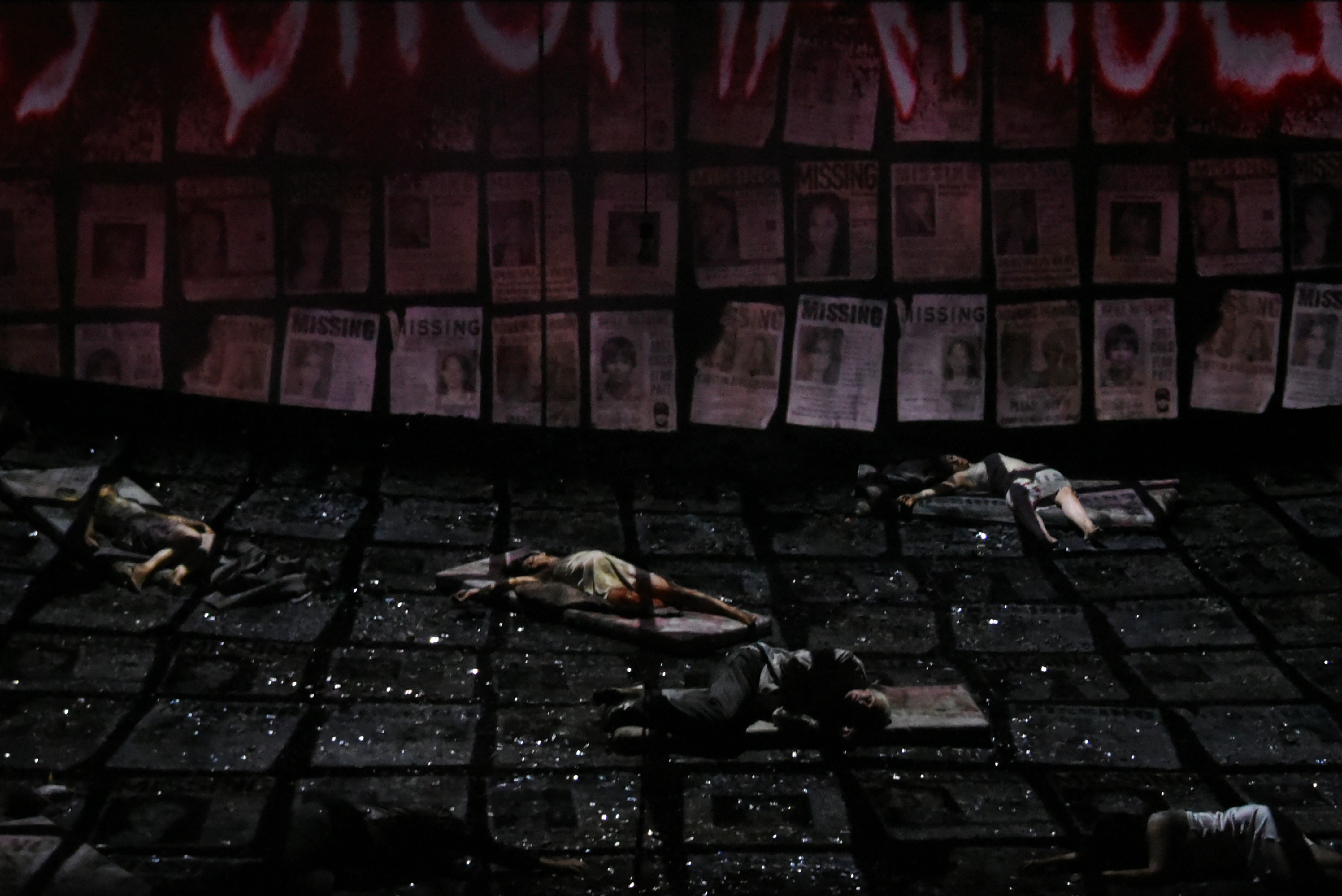 Die Gezeichneten, opera by Franz Schreker (Opéra de Lyon 2015)